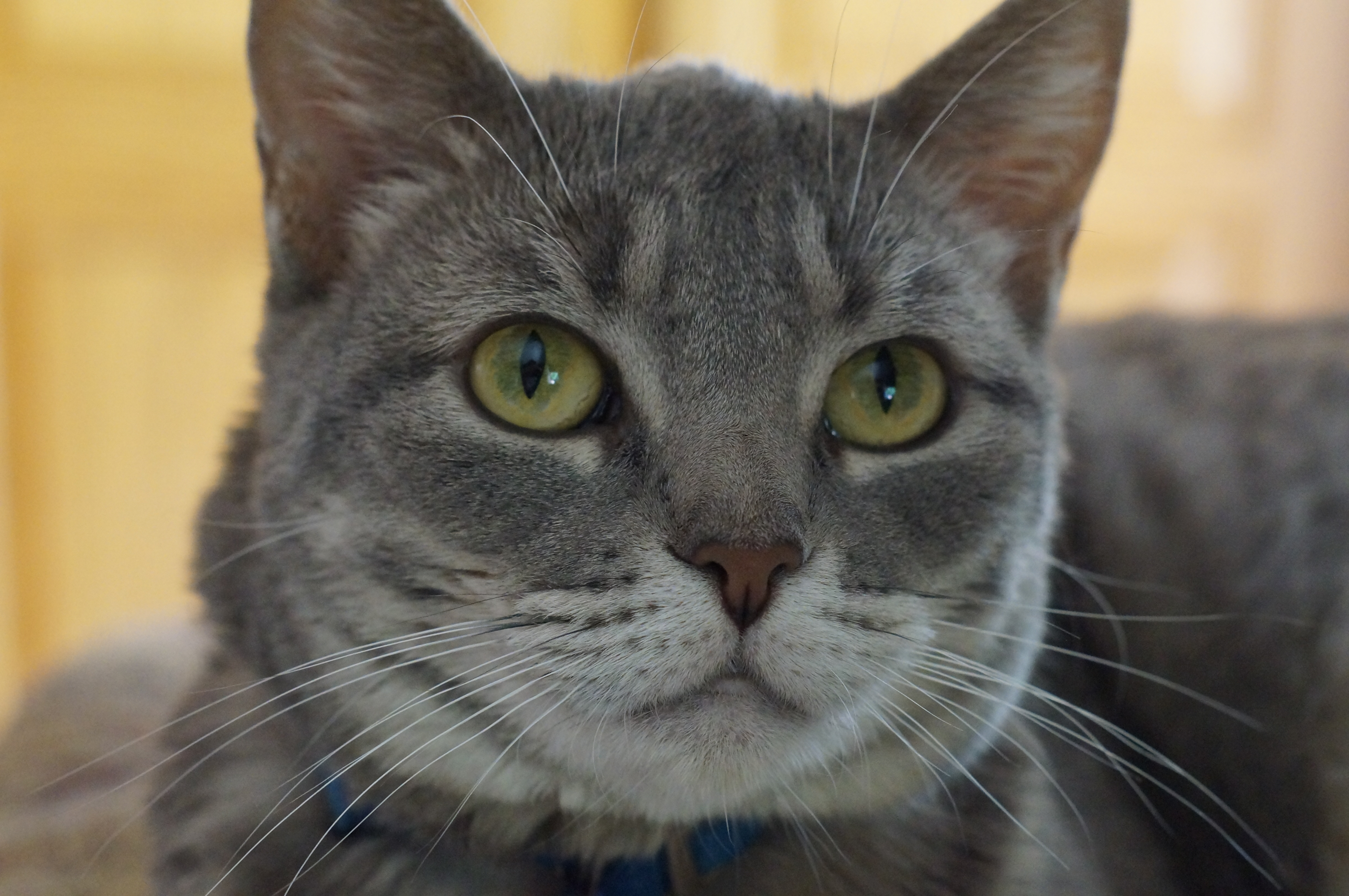 A full-face portrait of one of my cats, showing the large ears, eyes, and many vibrissae of an animal adapted for low-light predation.